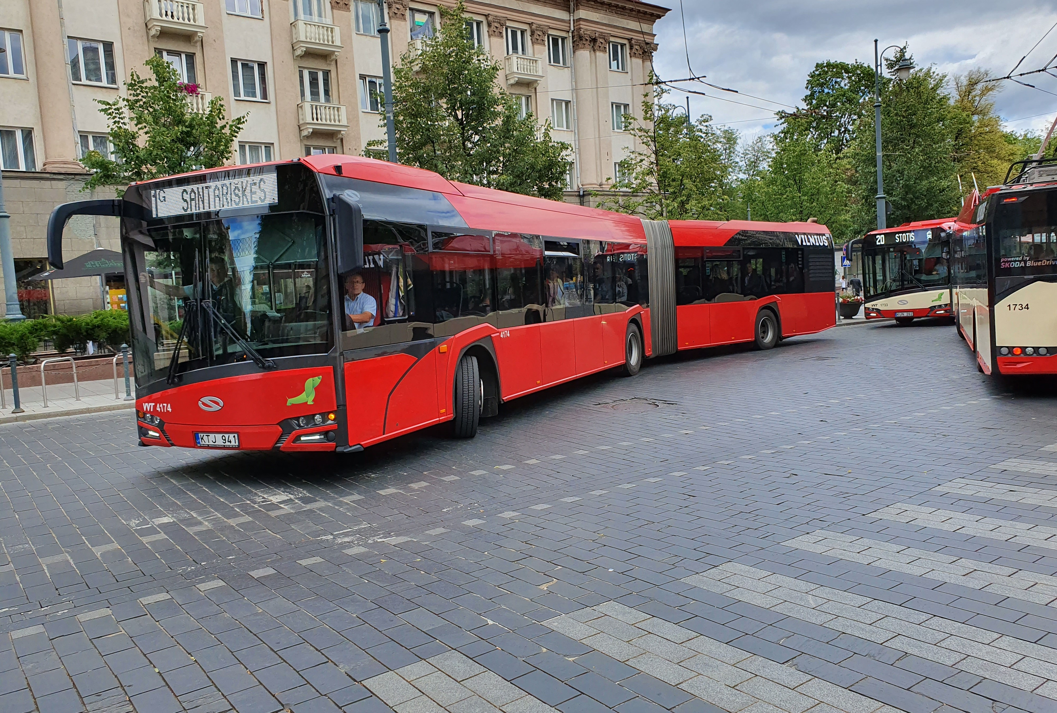 Solaris bus and trolleybuses of the Vilnius public transport.